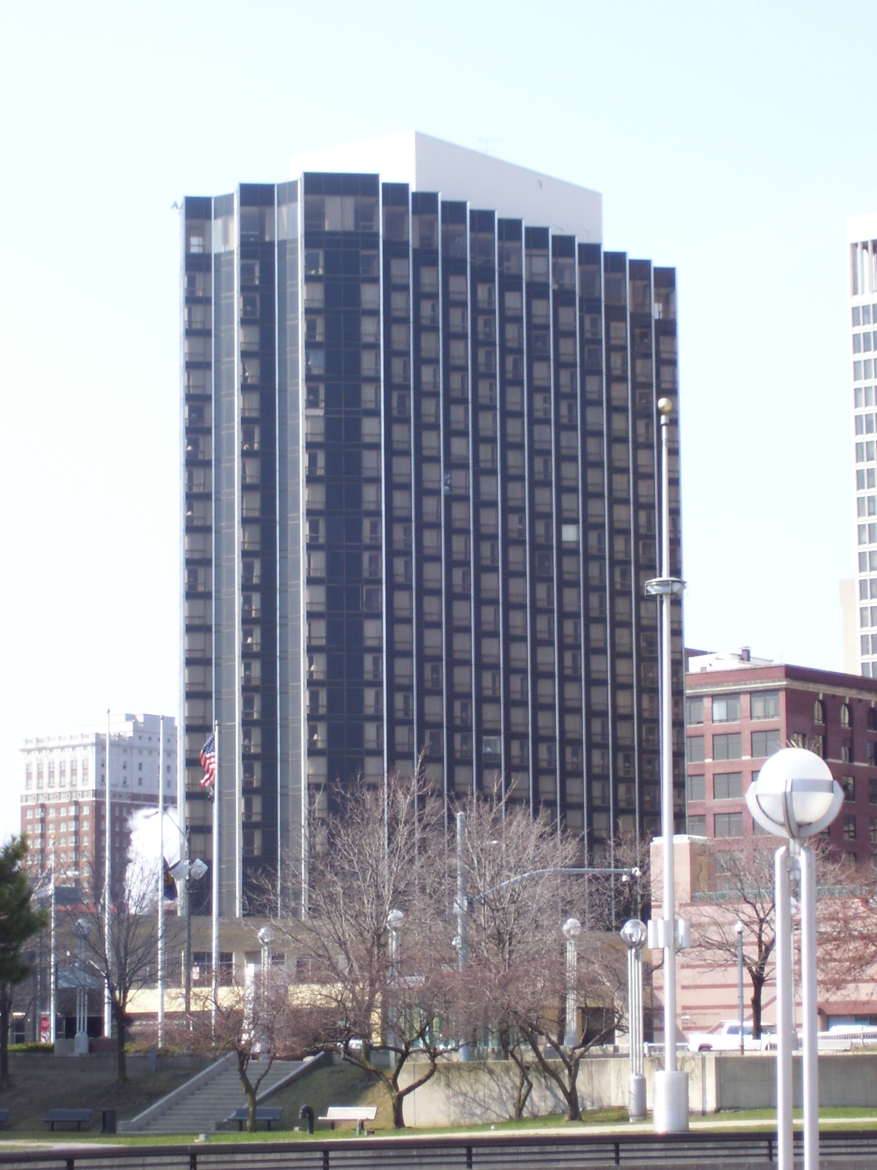 The Detroit Riverside Hotel — as seen from Hart Plaza at the Detroit International Riverfront.